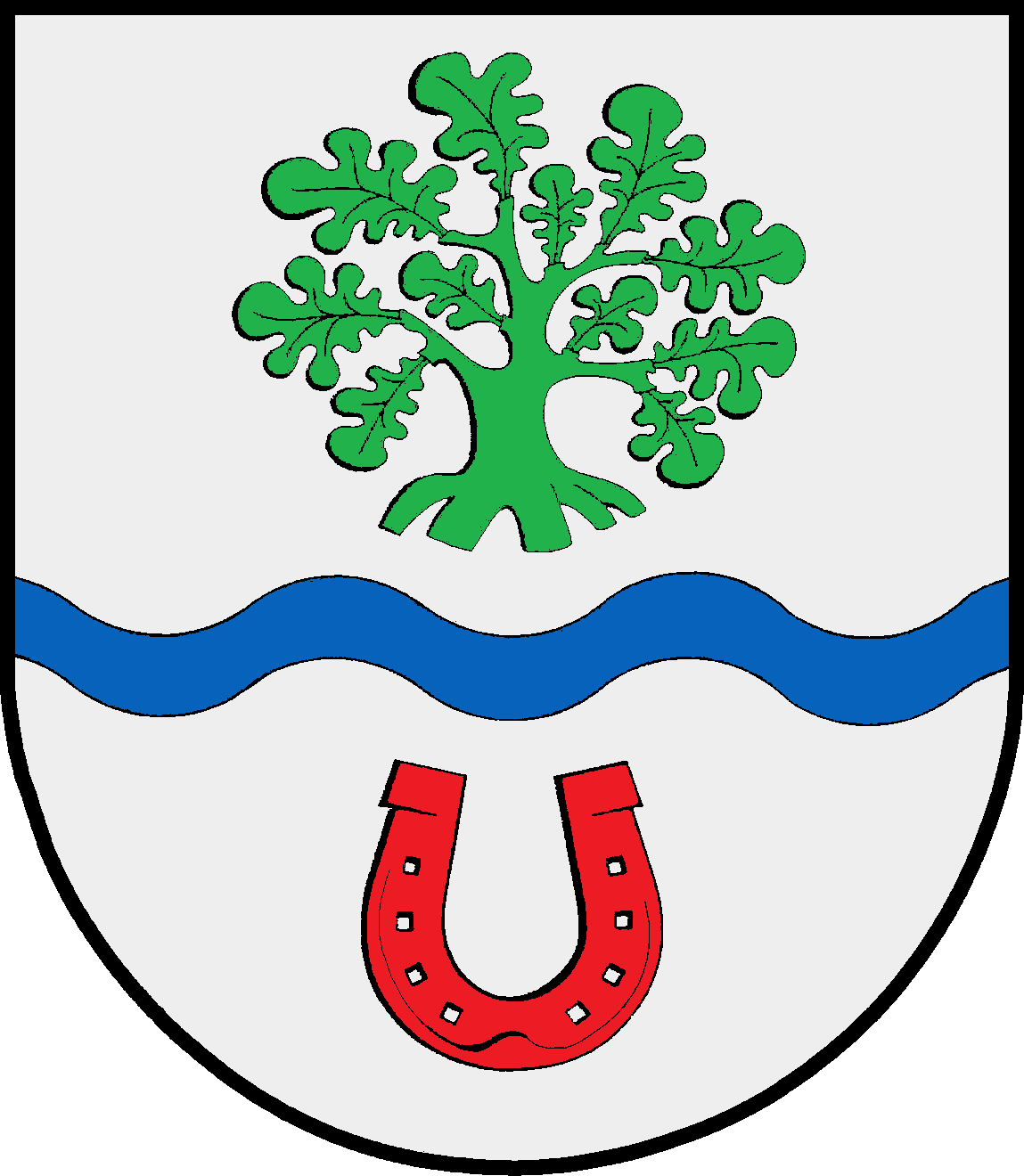 Coat of arms of the municipality Padenstedt in Schleswig-Holstein, Germany.